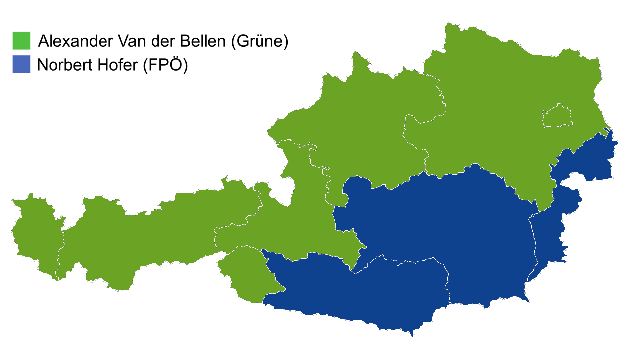 Results of the second round of the Austrian presidential election (4 December 2016), 2016, by state. Norbert Hofer Alexander Van der Bellen